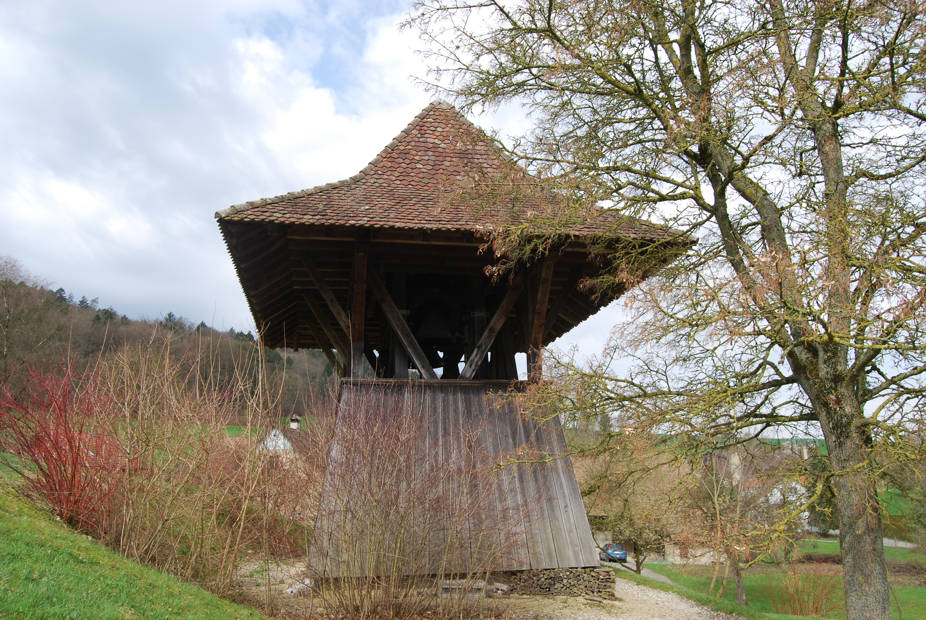 Bell tower of the Abbey of Wislikofen, canton of Aargau, SwitzerlandEsperanto: Sonorilturo de la Abatejo Wislikofen, Kantono Argovio, Svislando